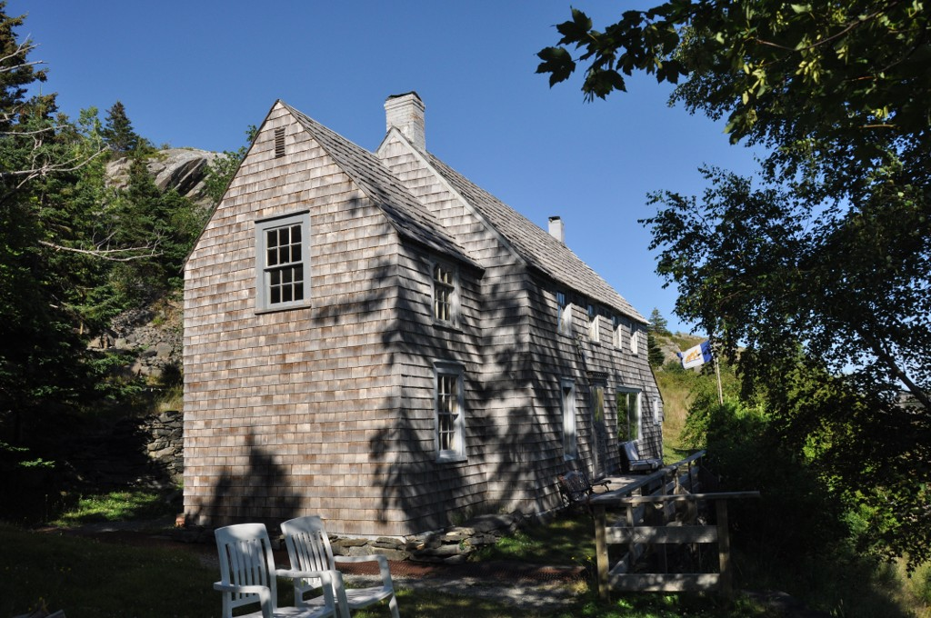 Landfall (Kent Cottage) Registered Heritage Structure, Brigus, Newfoundland.